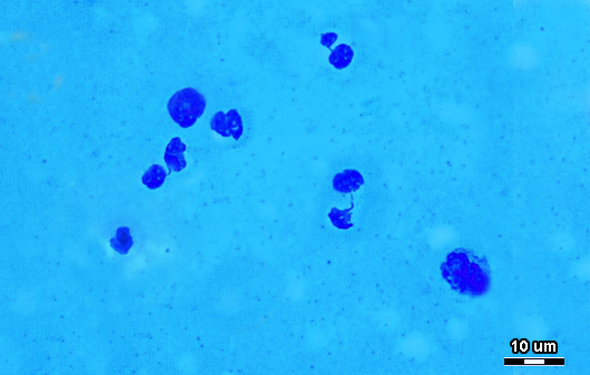 Dark blue colored somatic cells on a light blue background (Smear was prepared from raw cow's milk stained with Newman-Lampert Levowitz-Weber staining solution (ISO 13366-1/2008), Microscope: Olympus BX51, Software: Image Analysis Olympus, magnification 600×), (7 somatic cells), author of the image (Peter Zajác).